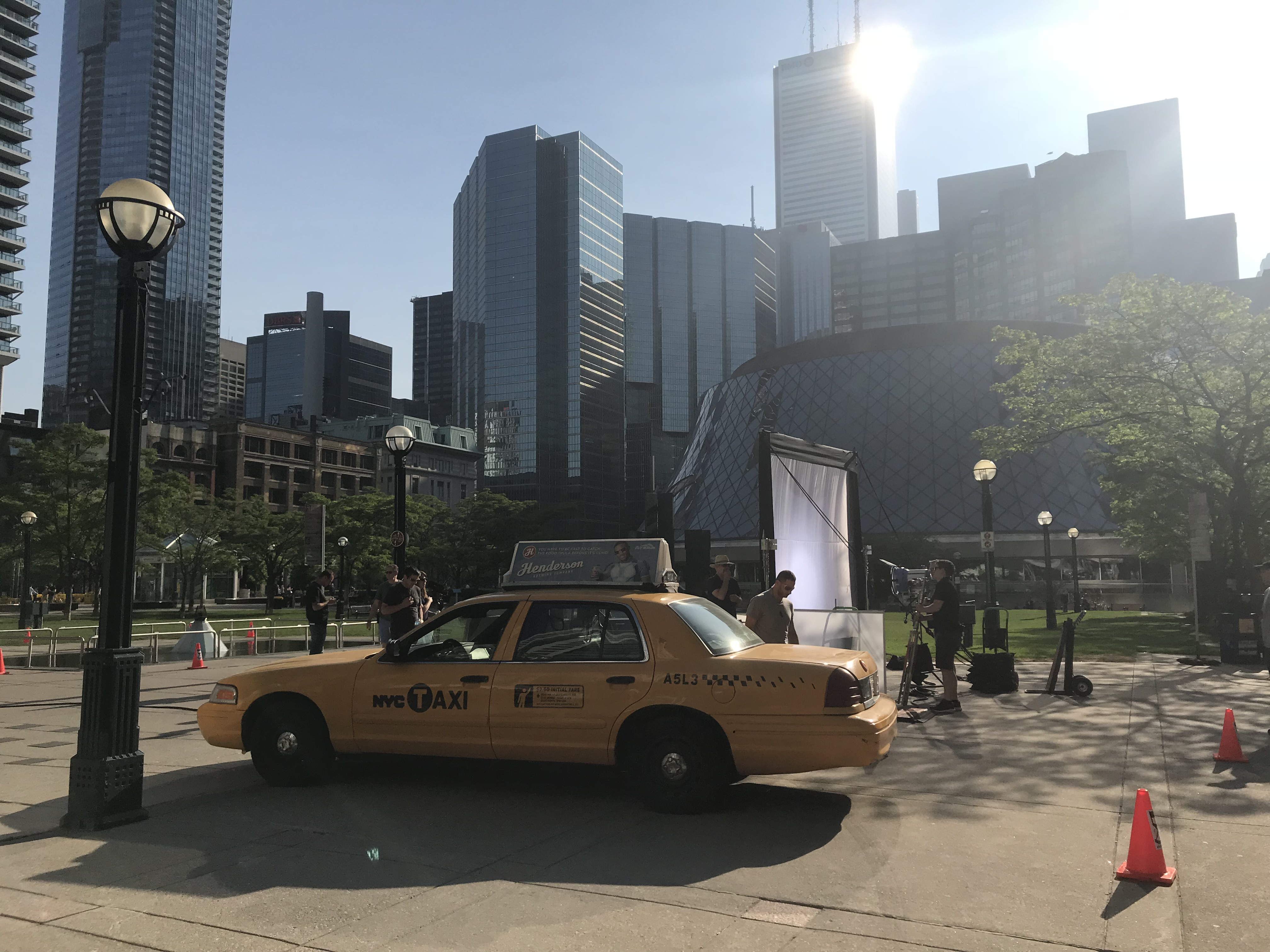 Set for the 2019 television show "The Boys" in Toronto, Ontario, with Pecaut Square changed to look like New York City. A fake NYC Taxi (A5L3) is visible in the foreground. More information on the context is available at